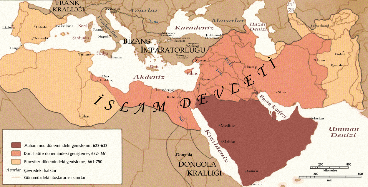 Age of the Caliphs